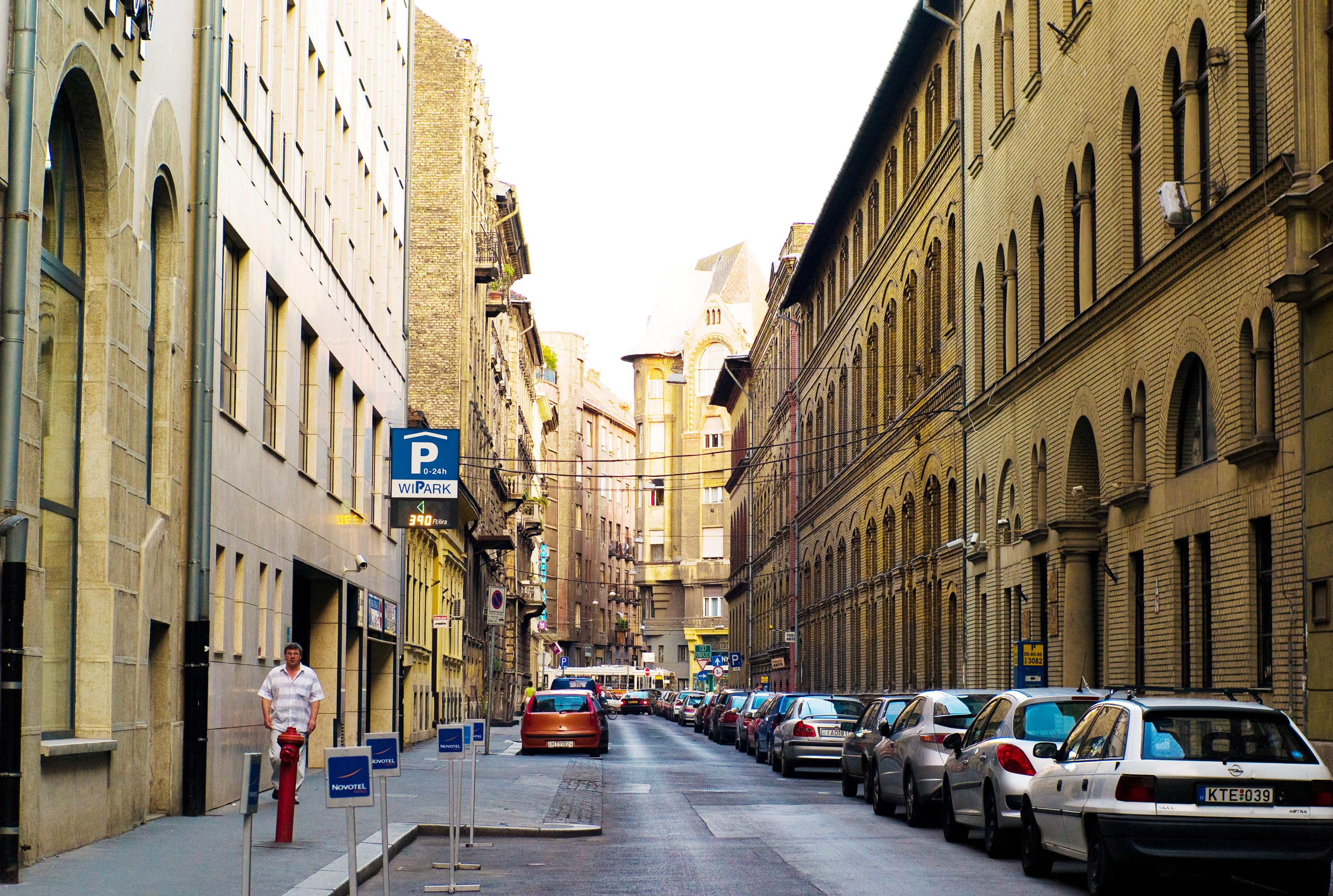 Budapest street in 2008.